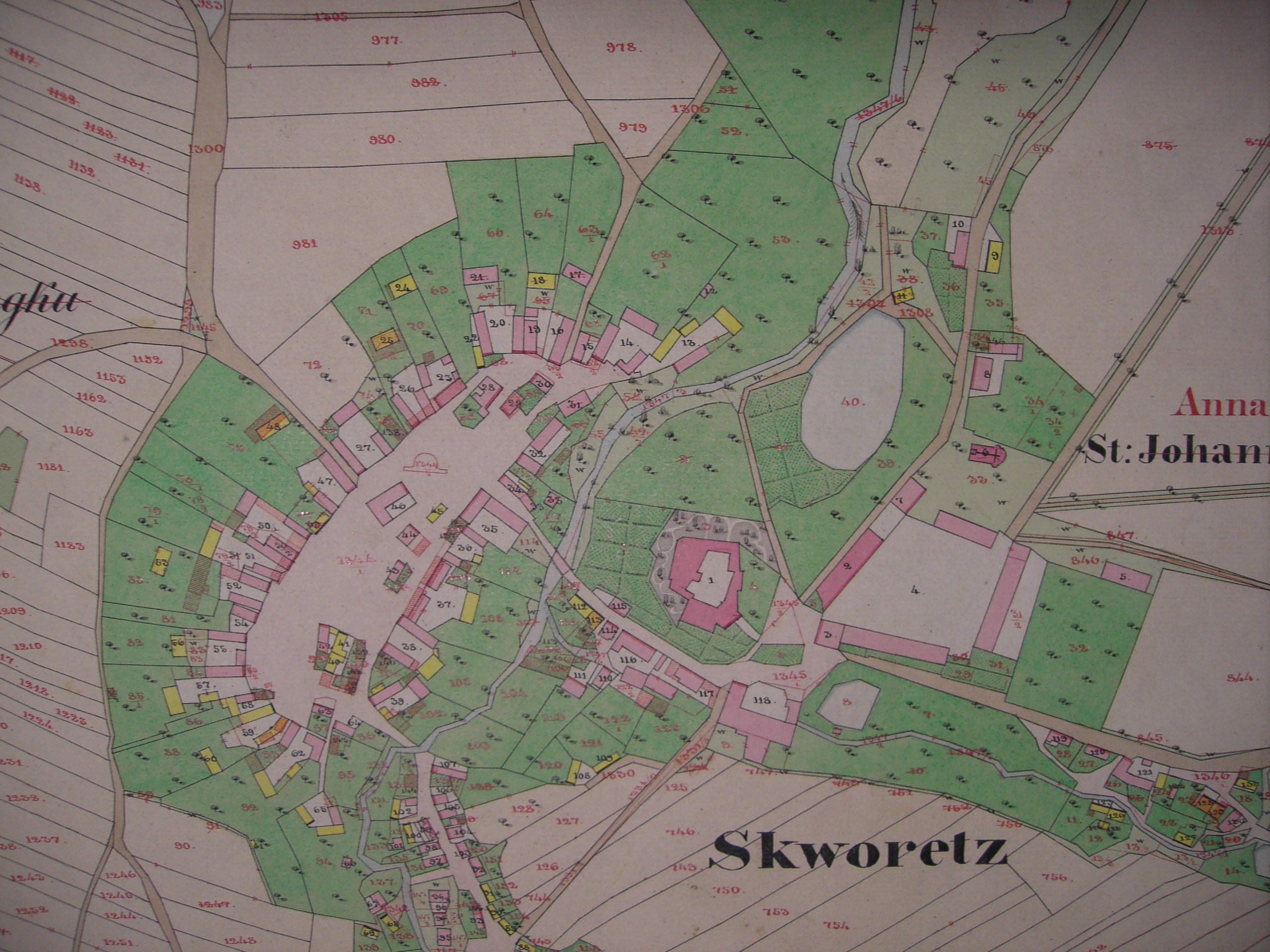 Military map of Skvorec 1841